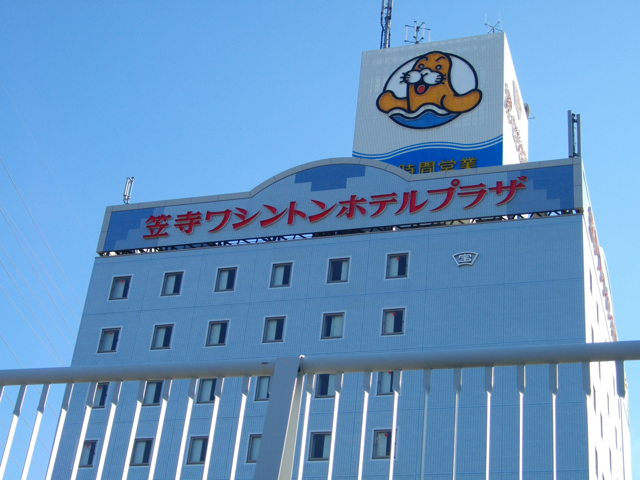 Nagoya Kasadera Washington Hotel Plaza